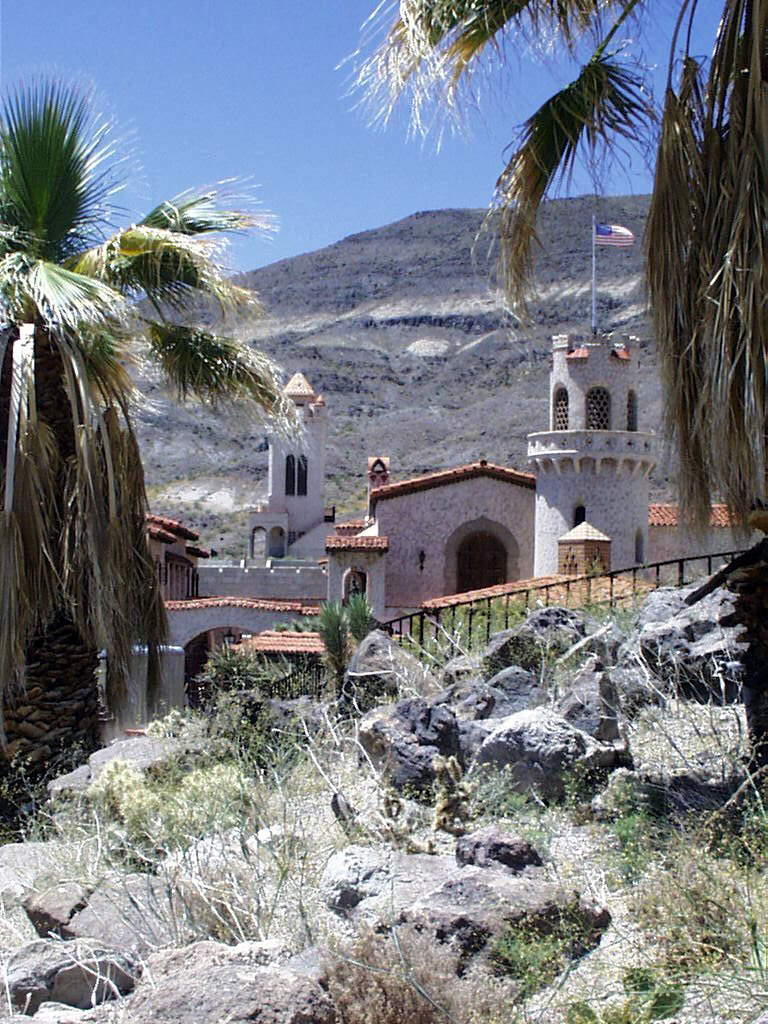 Scotty's Castle, Death Valley National Park. Photo credit: National Park Service